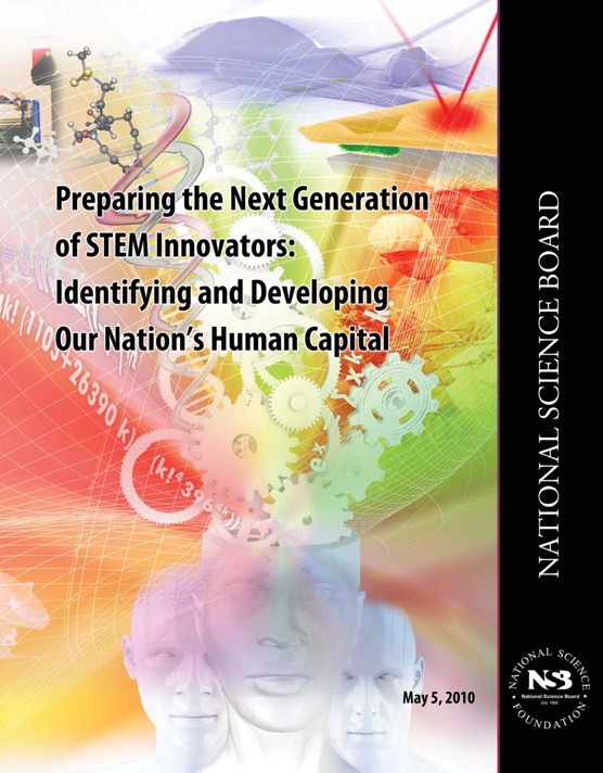 The front cover art of the National Science Board's STEM Innovators report